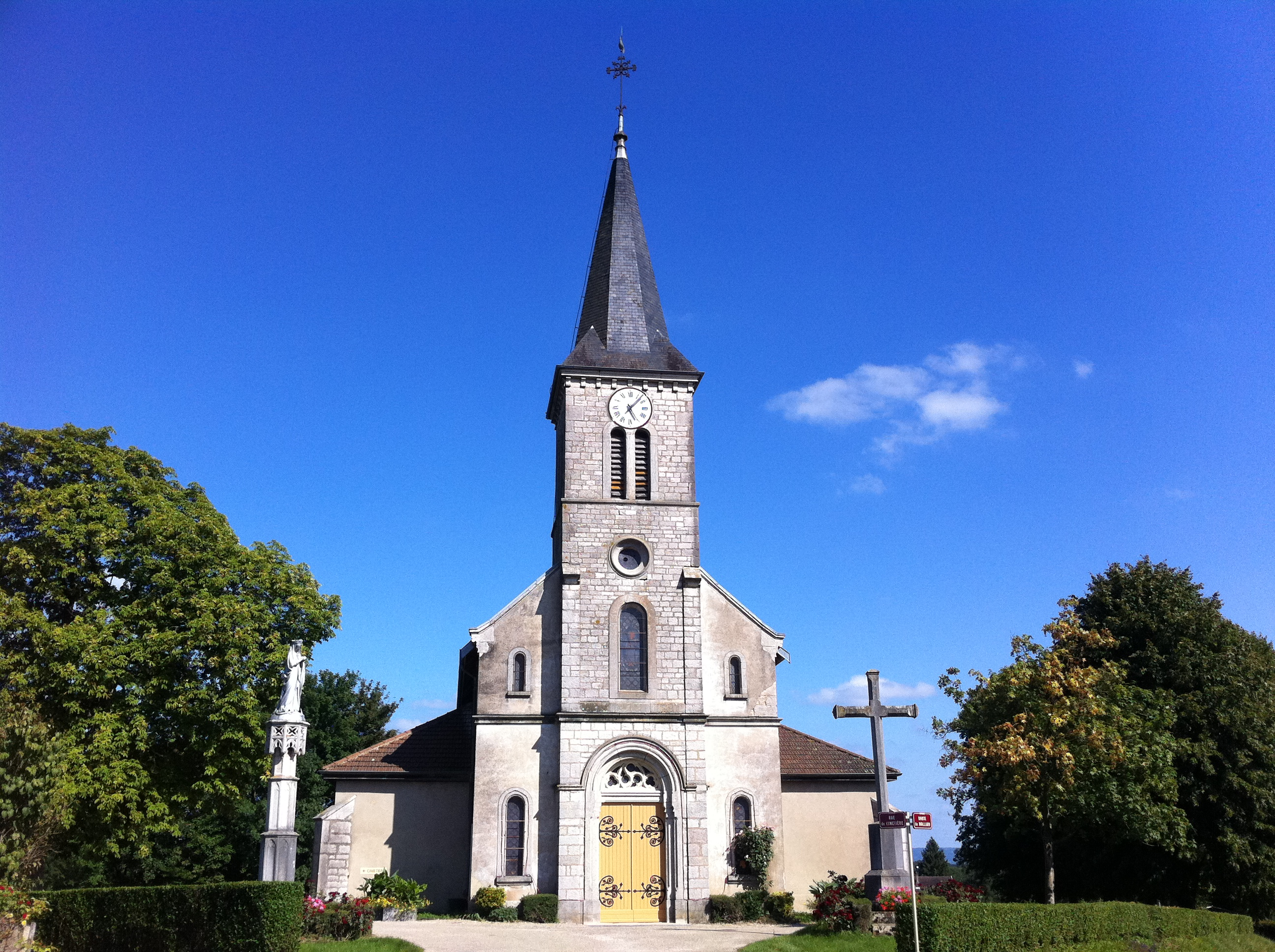 St Pancrace church in Cormoz, France